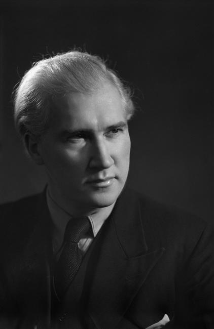 Studio photo